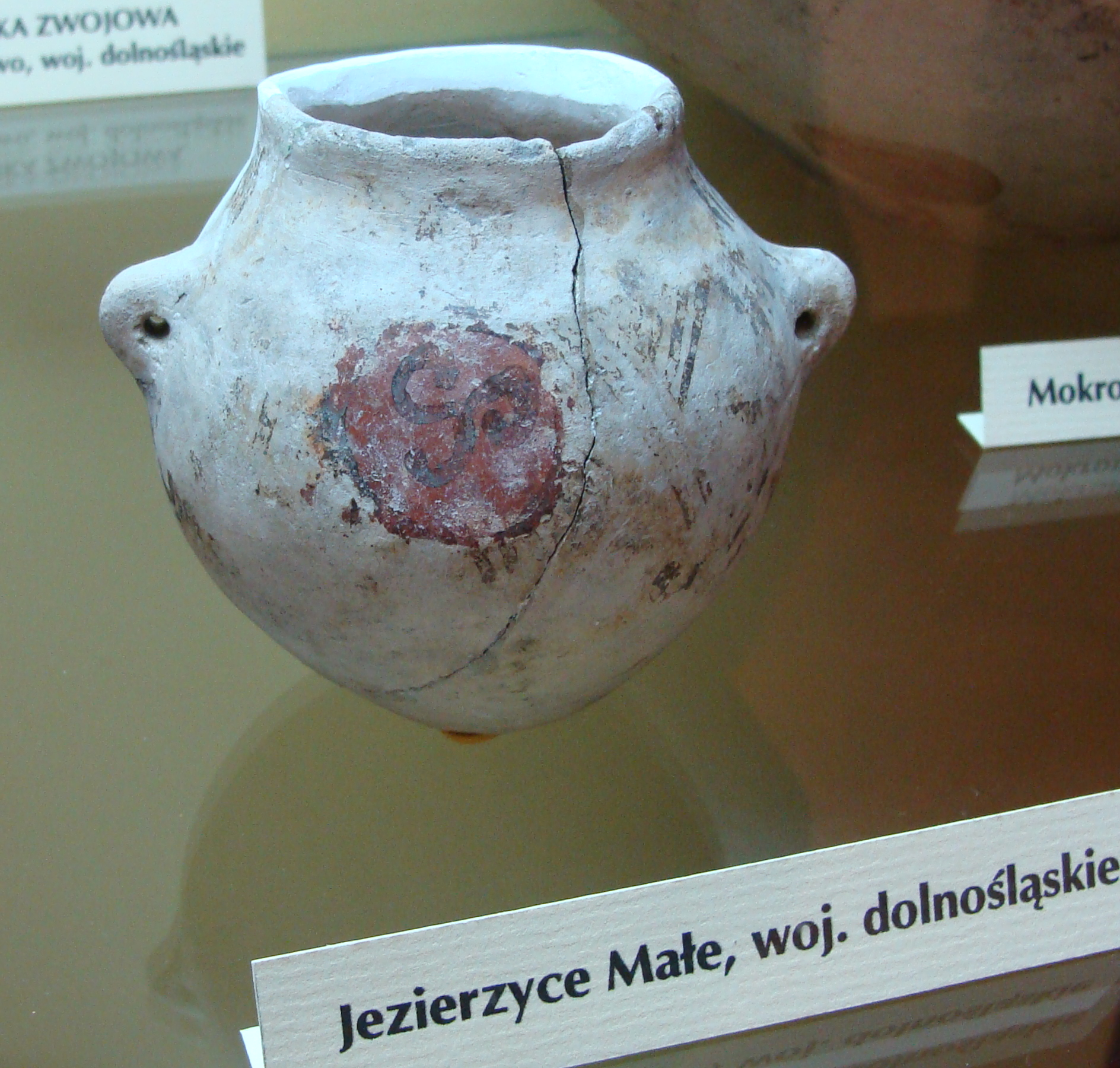 Triskelion, Muzeum Ślężańskie (Sobótka, 2009)